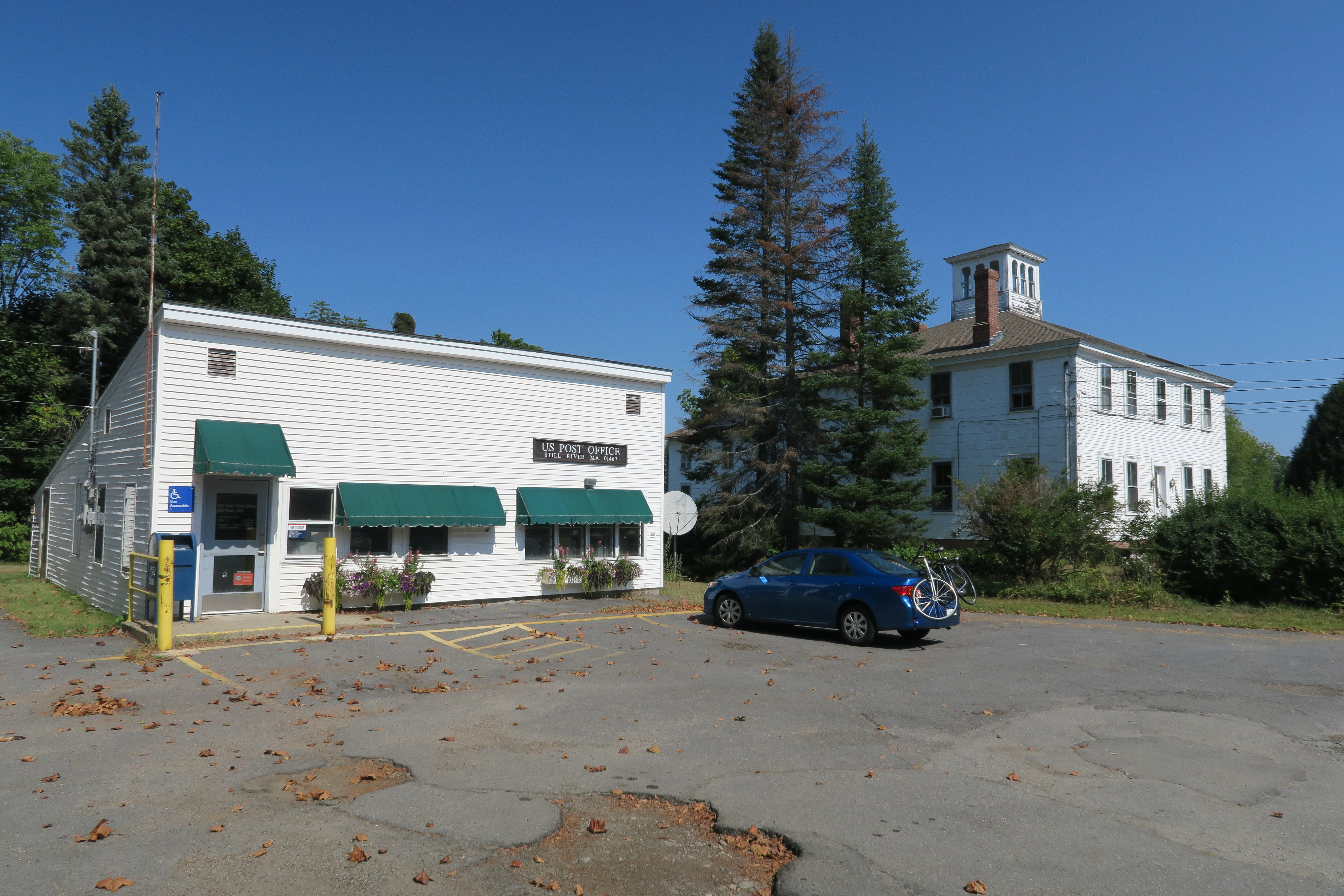 Post Office, Still River Massachusetts